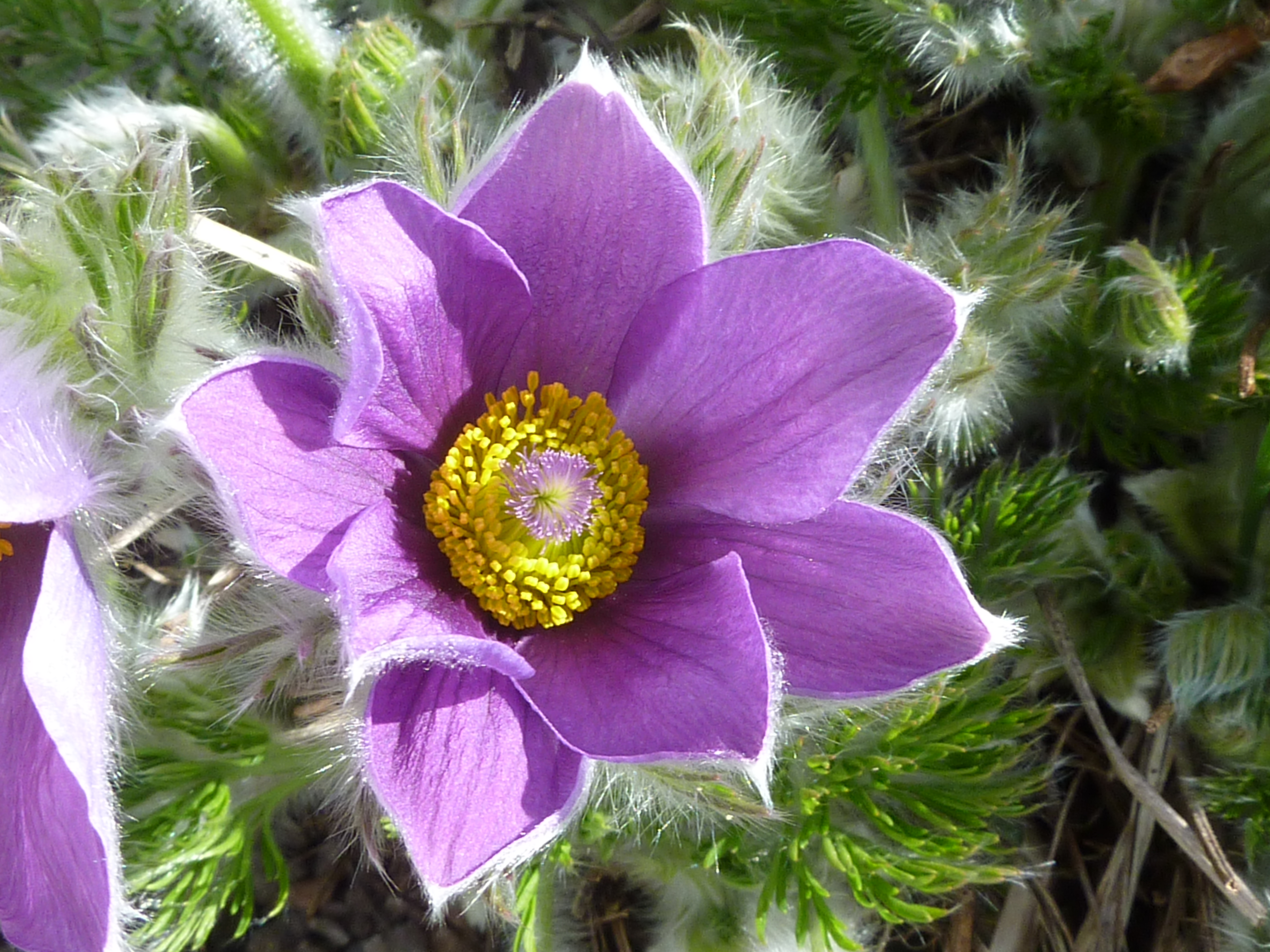 Taken in the Cambridge University Botanic Garden.